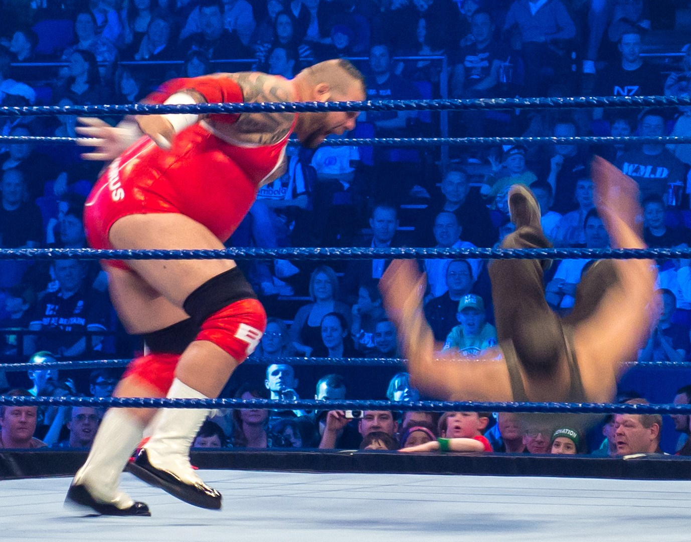 Brodus Clay headbutts Hunico at the WWE SmackDown tapings on 17 April 2012.